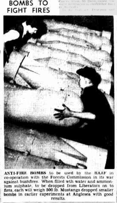 Fire bombs for trial at Anglesea - The Herald newspaper, 18 Dec 1946